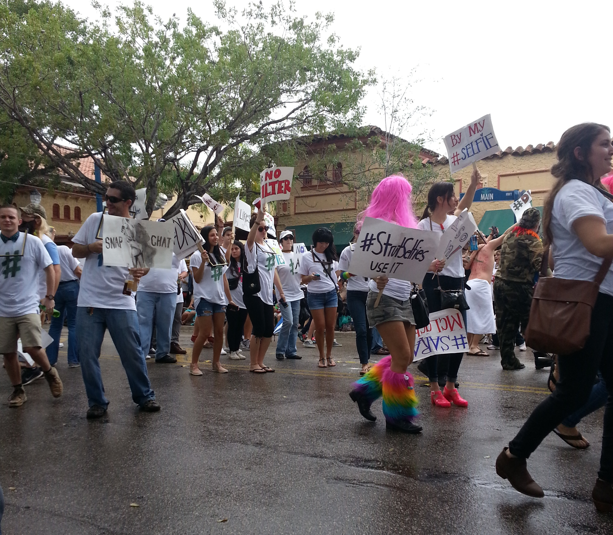 A group of people calling themselves the "Narcissistic Selfie Association (NSA)", one of the "floats" at the 2013 King Mango Strut. The people in the float ran into the crowd to take selfies with spectators holding cameras. The person in the camo outfit is from a previous float, "Ducy Dumbnesty".